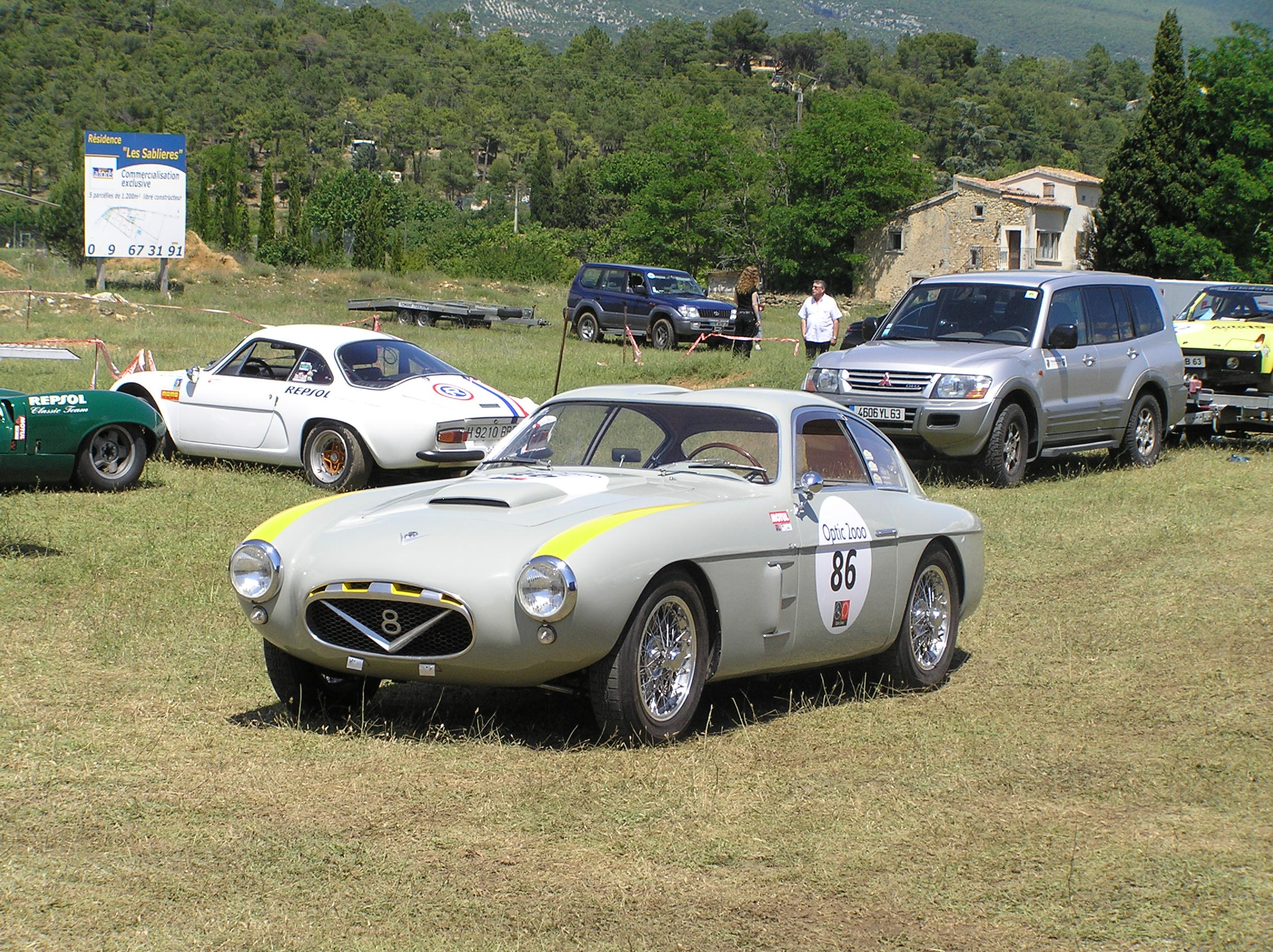 Fiat 8V Zagato 1954 during "la ronde du Ventoux 2009", old cars demonstration